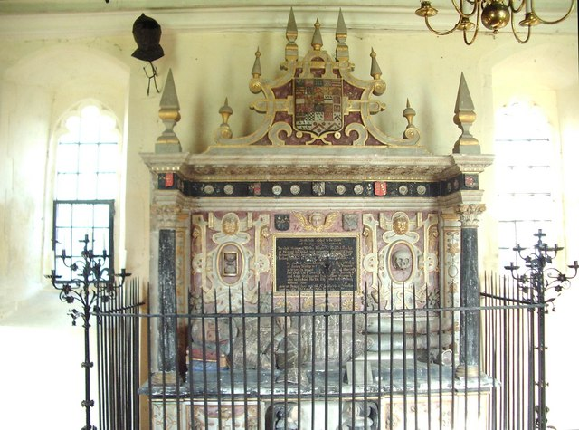 Interior of St Nicholas Church, Freefolk This Jacobean monument to Sir Richard Powlett is to be found on the north wall